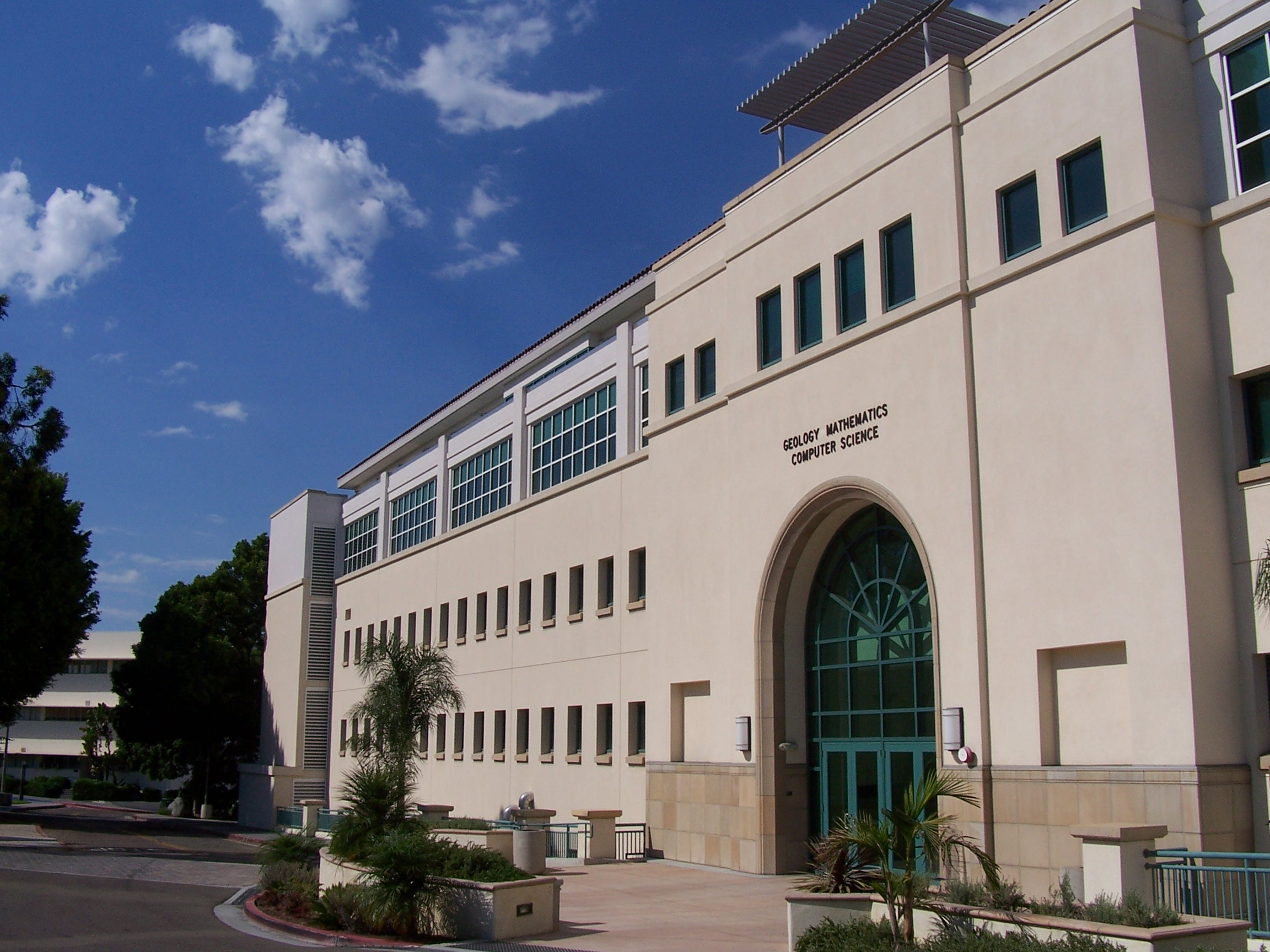 Geology Mathematics Computer Science (GMCS) building at San Diego State University